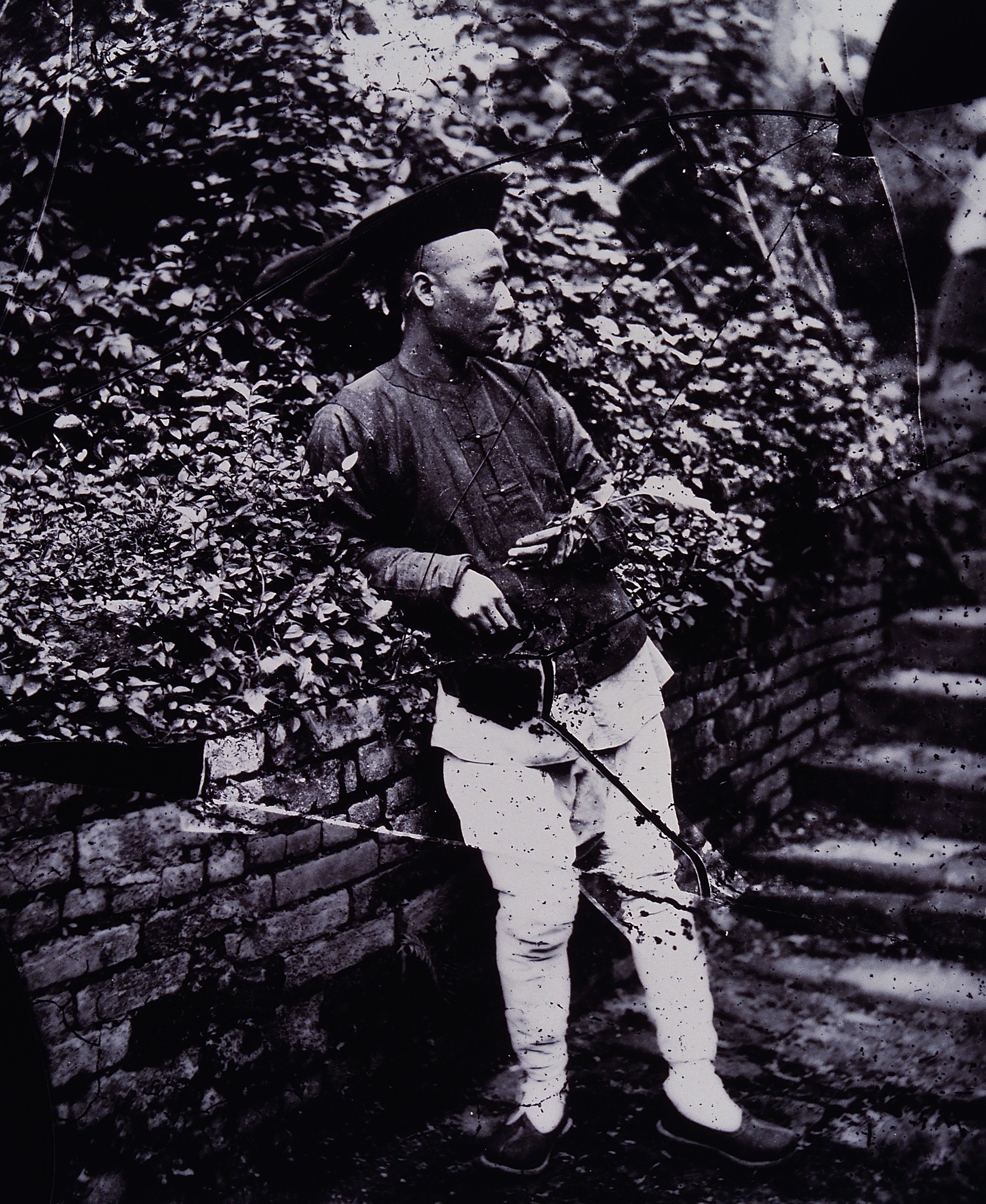 Canton, Kwangtung Province, China. Iconographic Collections Keywords: China; Portraiture; John Thomson